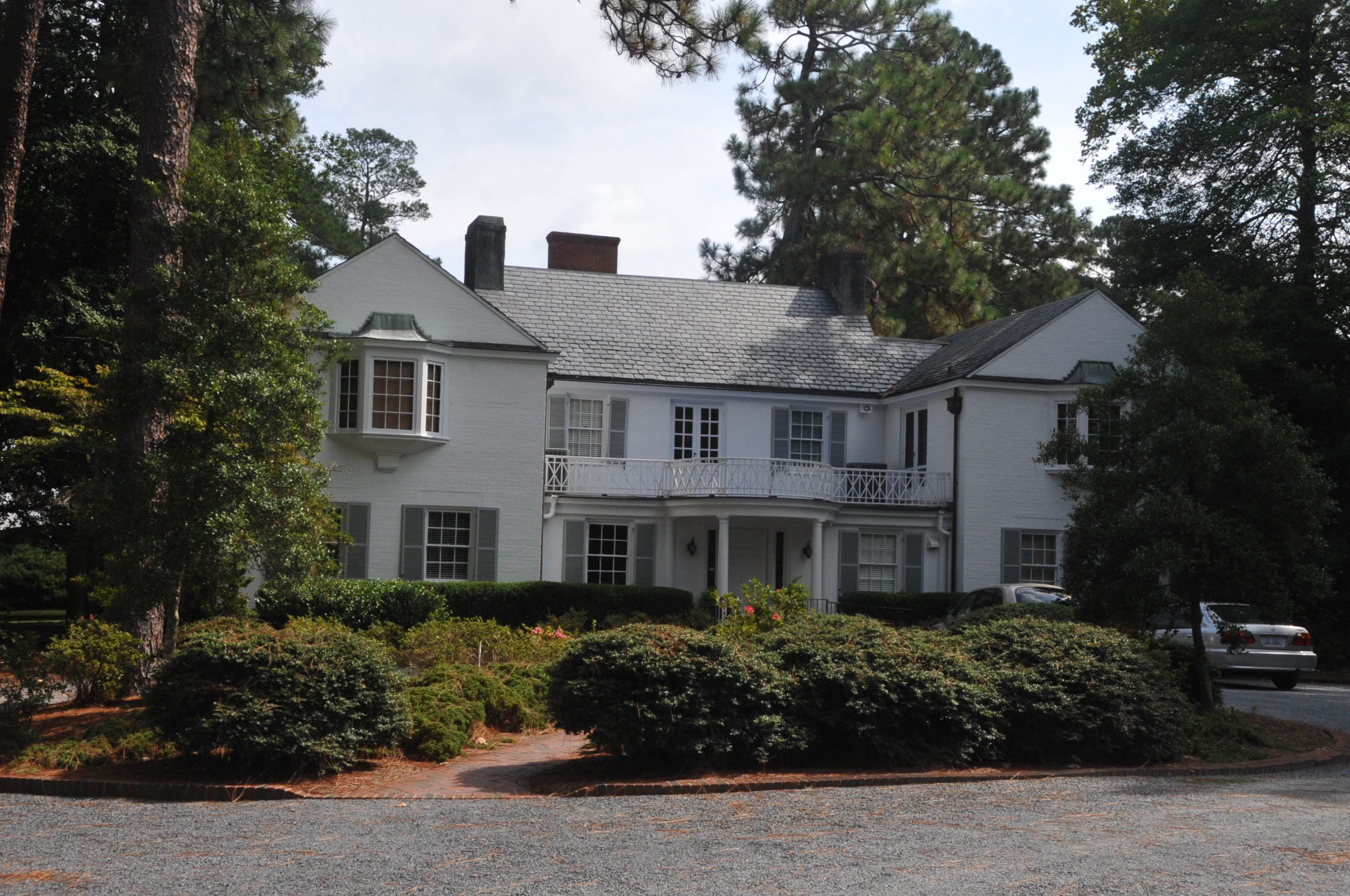 1905 COLONIAL REVIVAL; NOW KNOWN AS WEYMOUTH CENTER FOR THE ARTS AND HUMANITIES